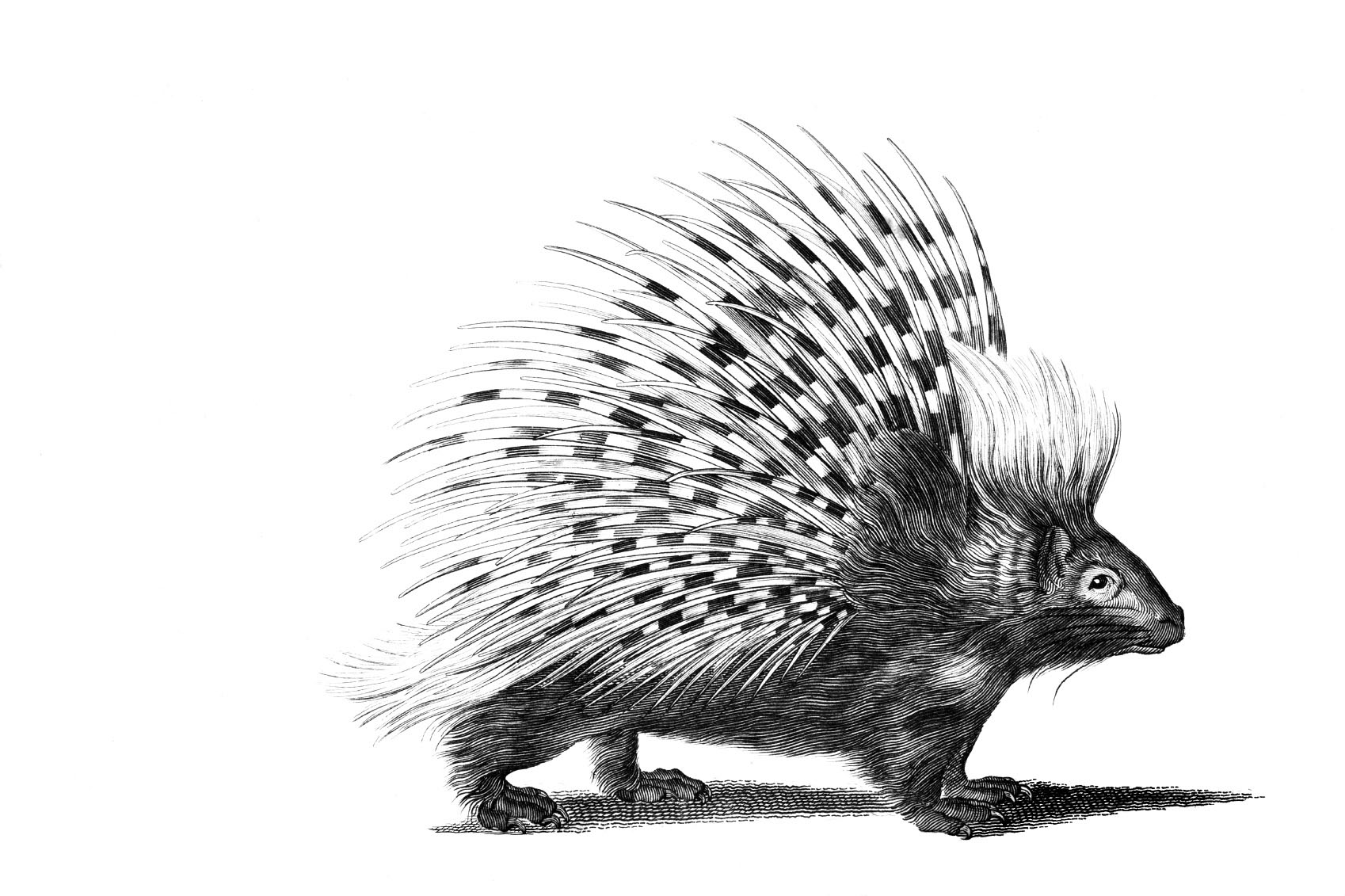 Logo of The Masters Review